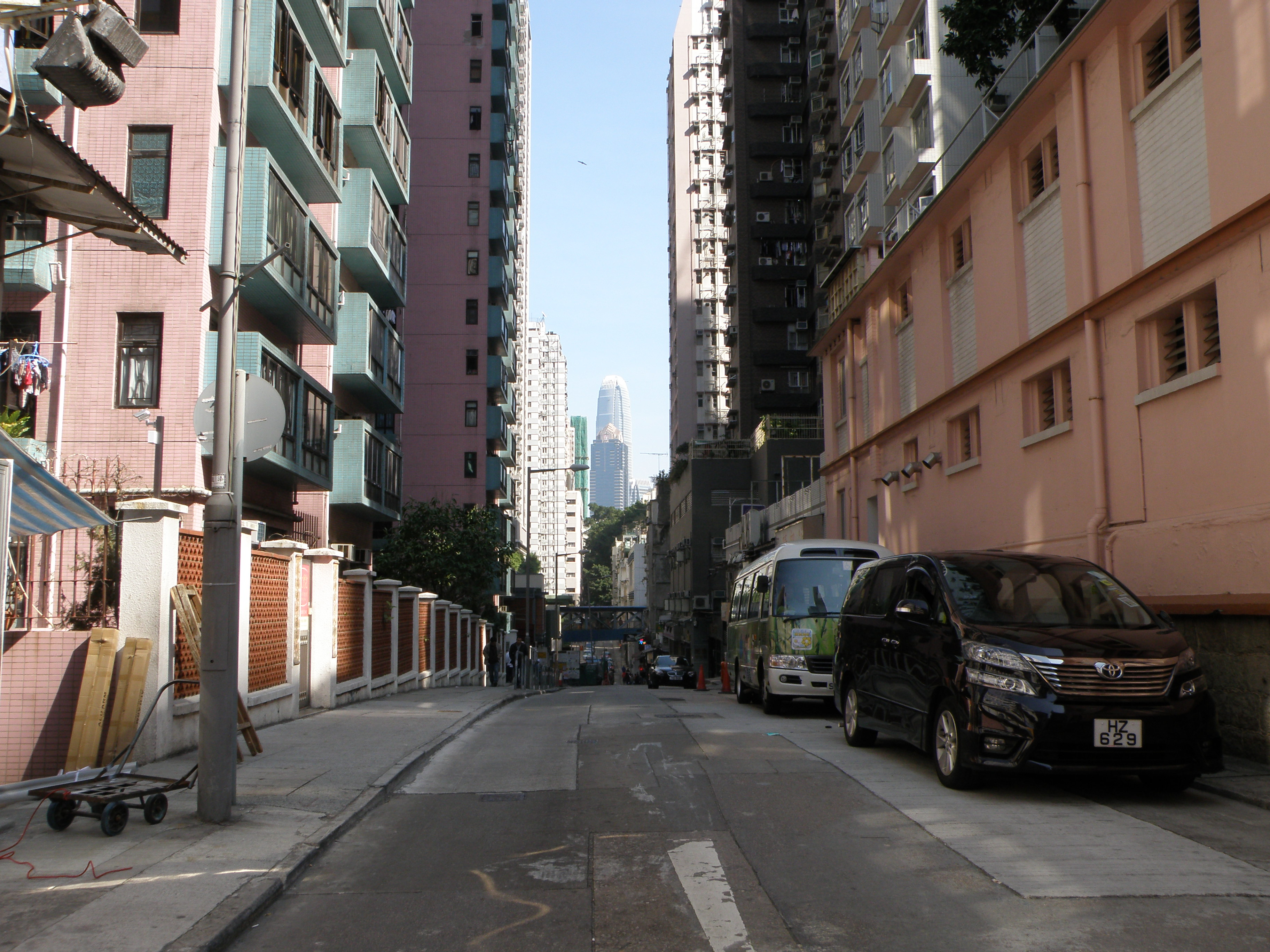 Second Street in Sai Ying Pun, Hong Kong.